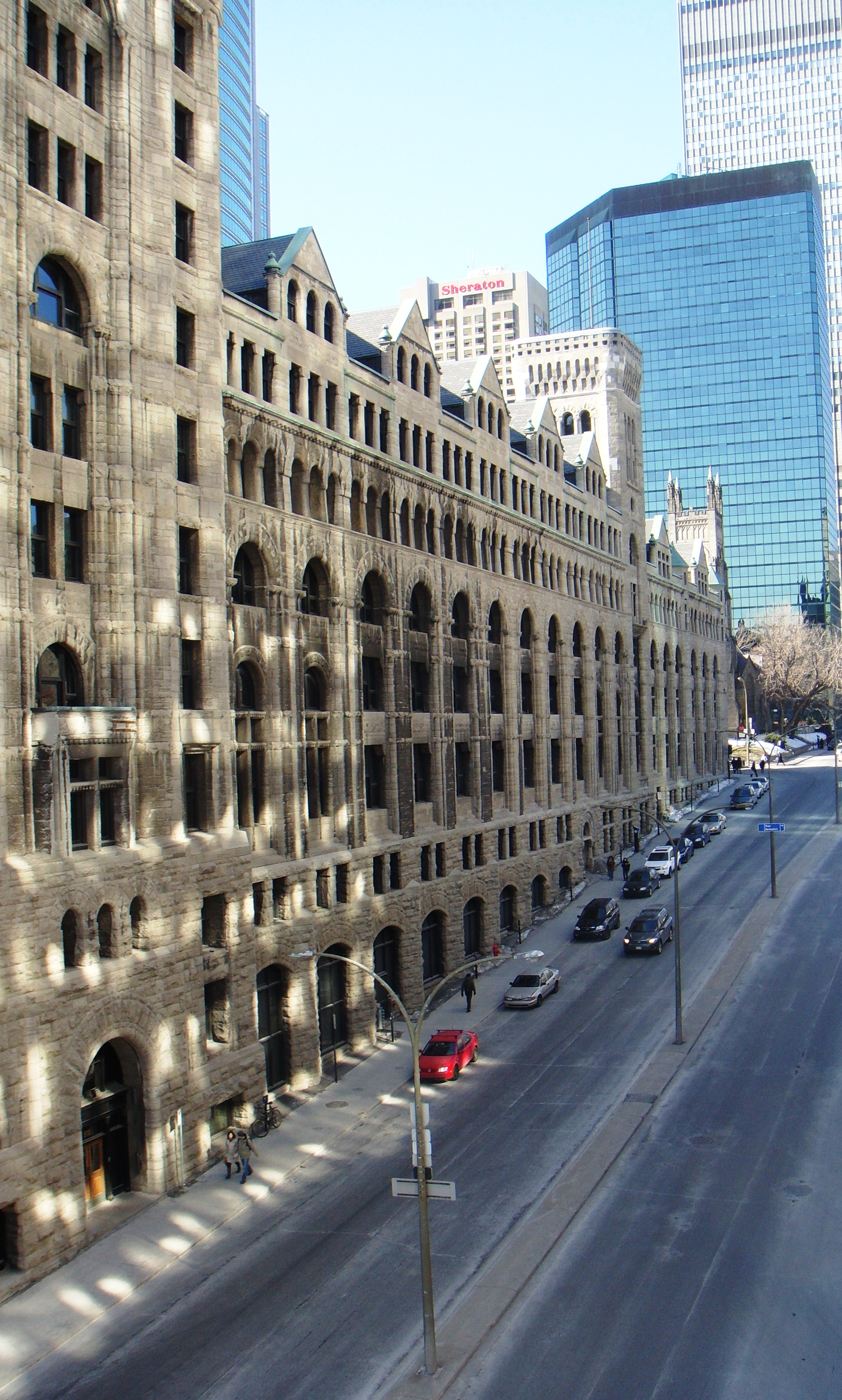 Peel Street near to Windsor Station, Montreal